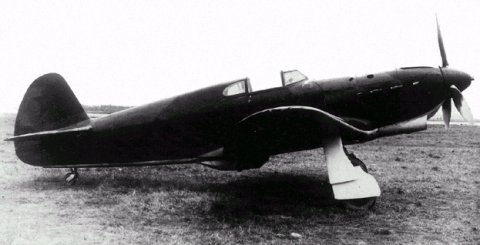 Yakovlev Yak-1 first series